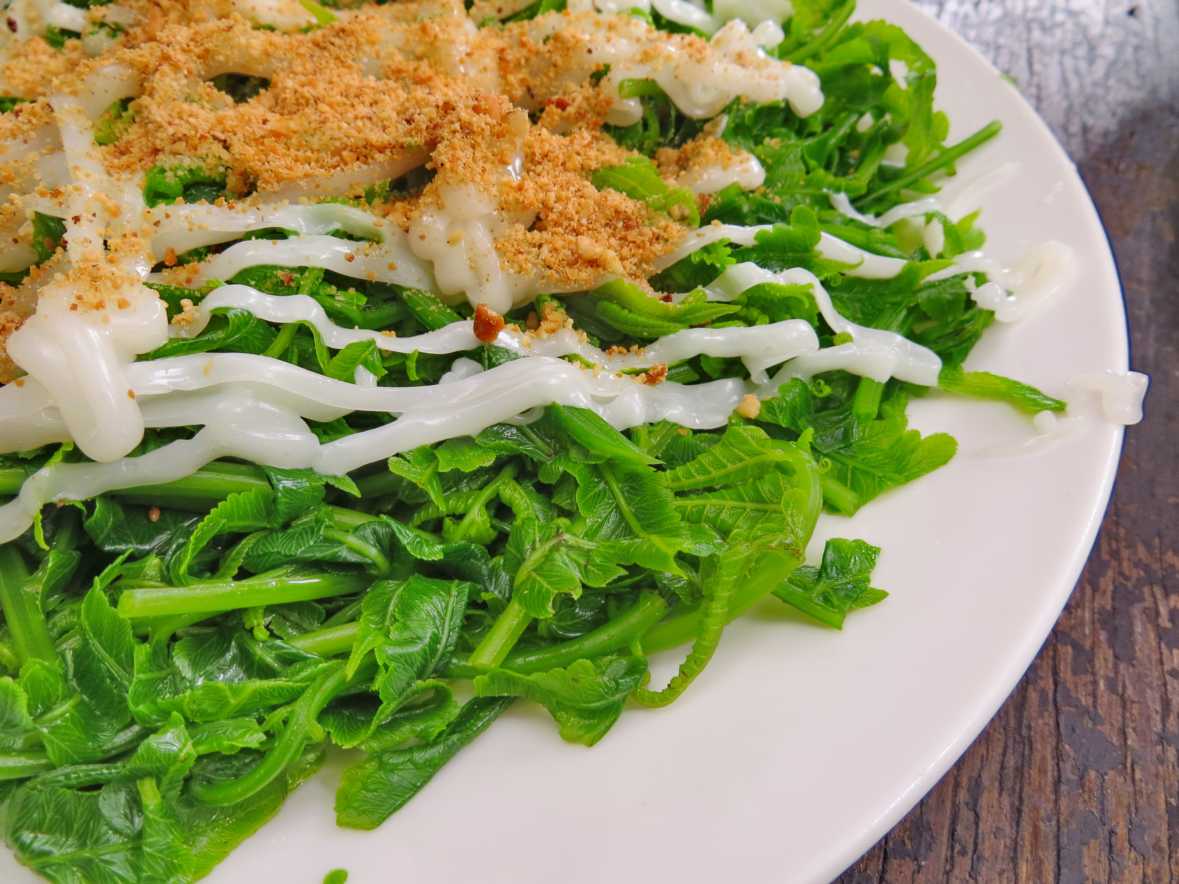 A salad dish of vegetable fern (Diplazium esculentum) with mayonnaise.